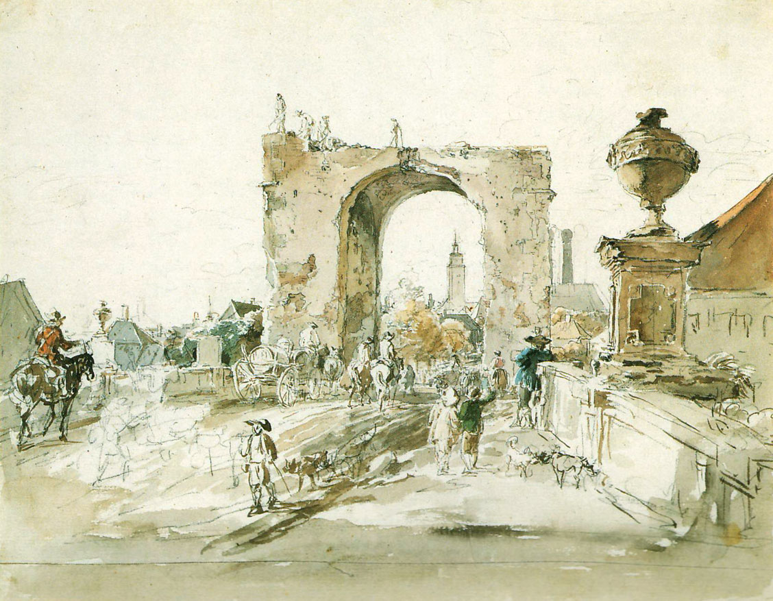 Destruction of Roter Turm (Red Tower) in Munich